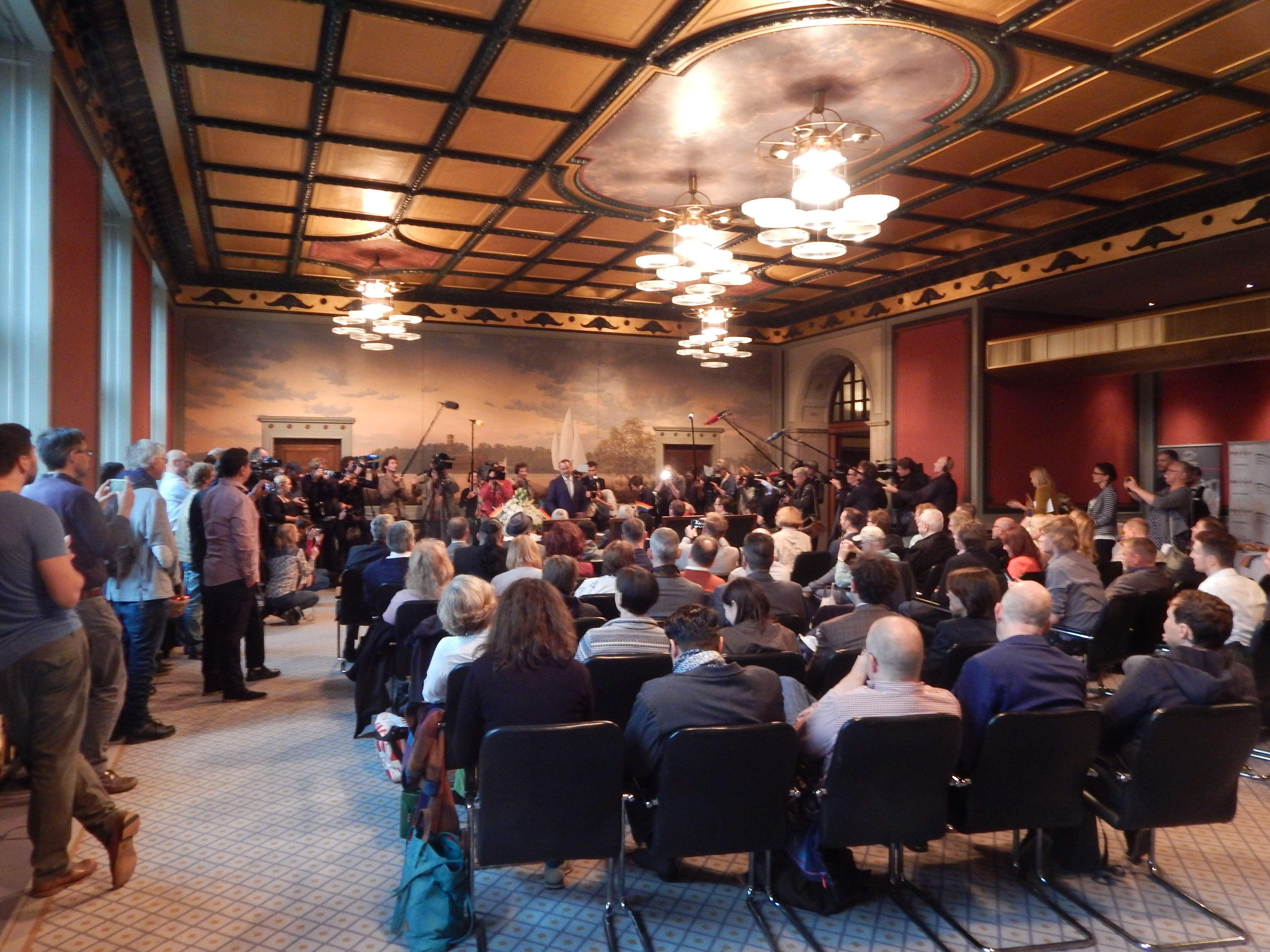 first gay marriage in Germany, Berlin, Rathaus Schöneberg, Goldener Saal